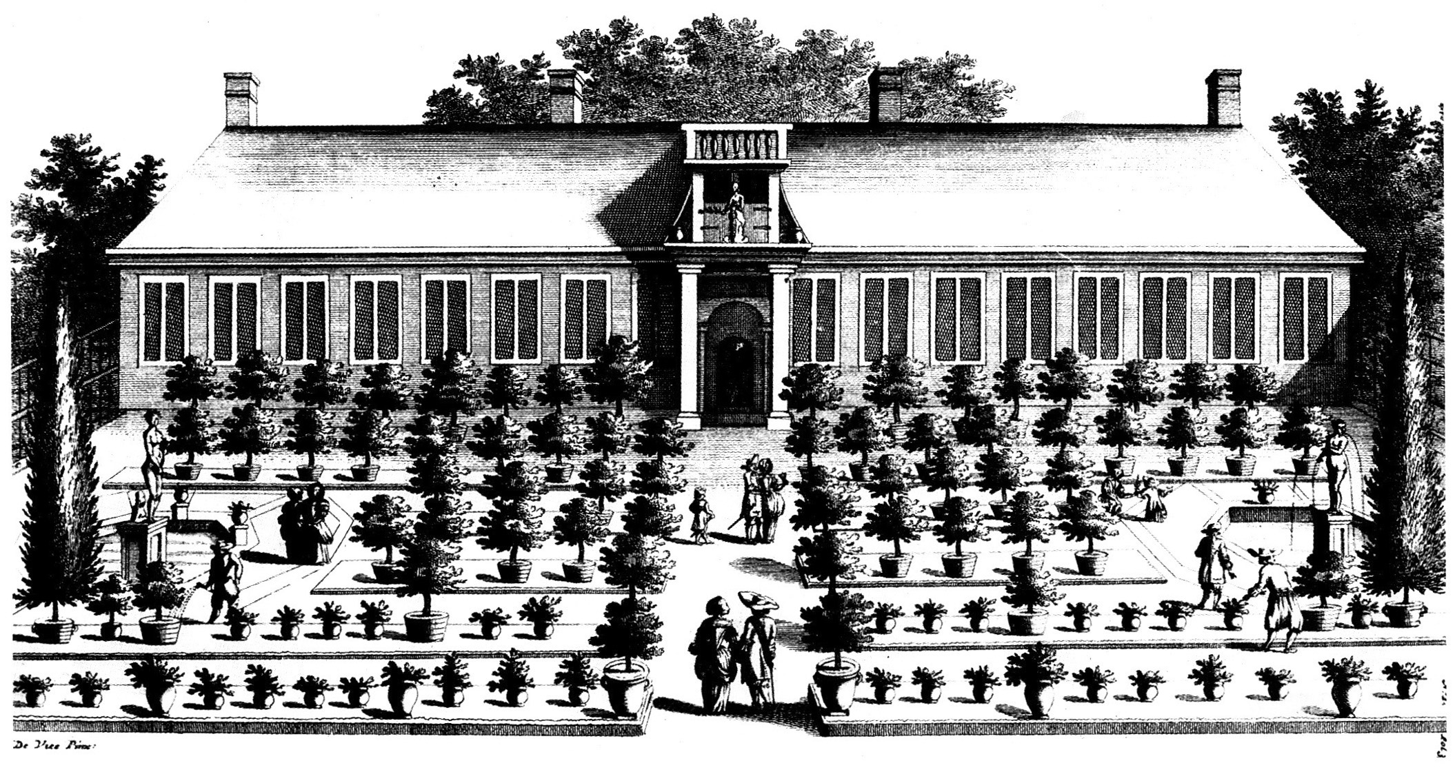 Orangery 1676